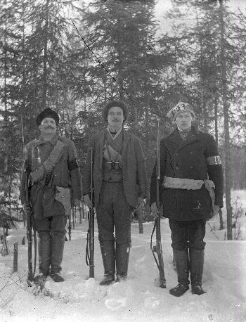 Red soldiers